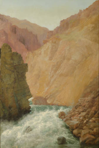 Painting of a river and gorge in Chelan County, Washington, Cascade Range by Abby Williams Hill in 1903.